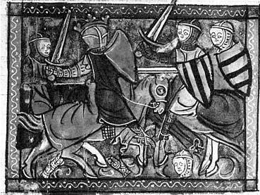 Battle of Charles of Anjou against Conradin and Henry of Spain